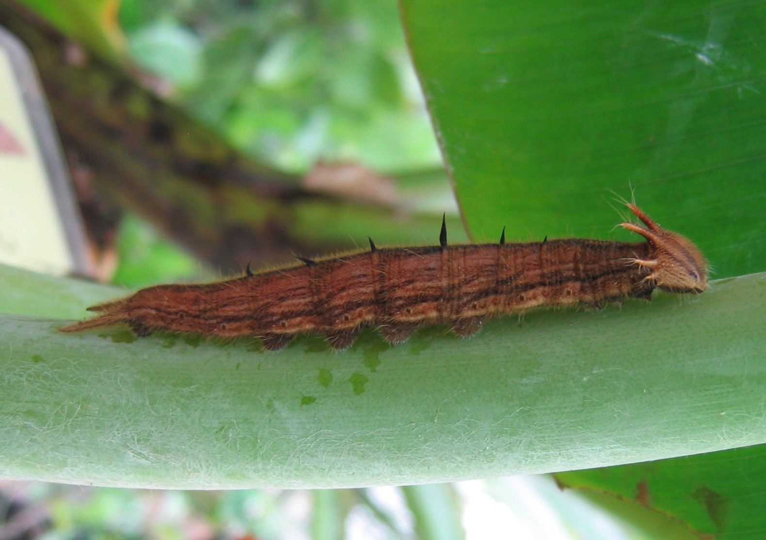 Older caterpillar of Owl Butterfly Botanischer Garten München-Nymphenburg